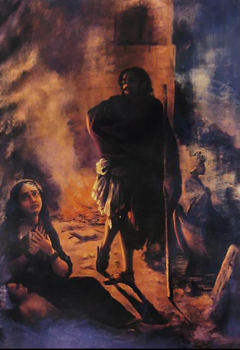 Harishchandra in cremation ground where Tharamathi comes with their dead son.